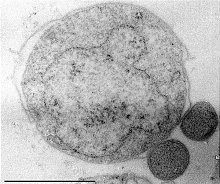 Image of Nanoarchaeum equitans